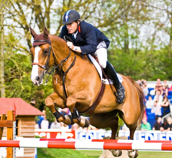 The British show jumping rider William Funnell with Billy Birr, Internationaal Concours Hippique Eindhoven (CSI 3*) 2008, Grand Prix of Eindhoven